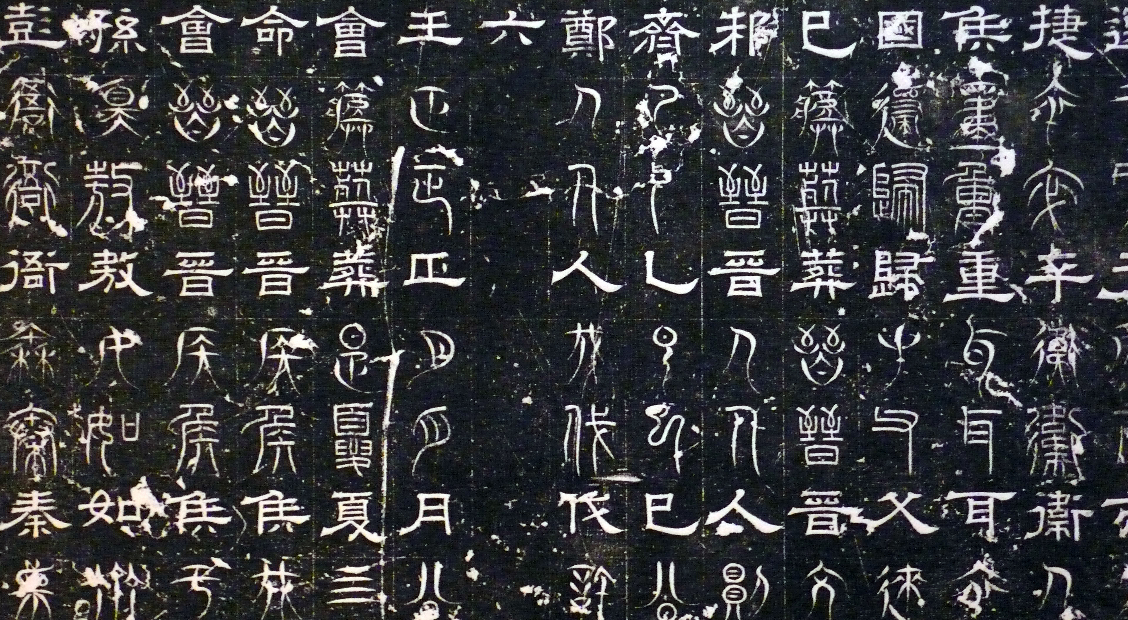 Rubbing of 三體石經 (Three scripts Stone Classics). Collected by National Museum of Chinese Writing.